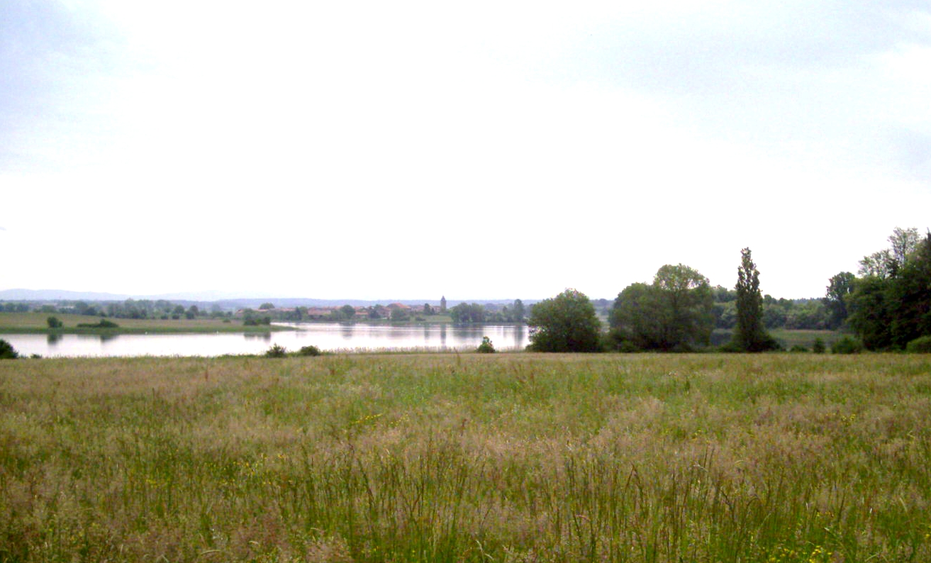 Lindre pond and Tarquimpol village (Moselle, France)